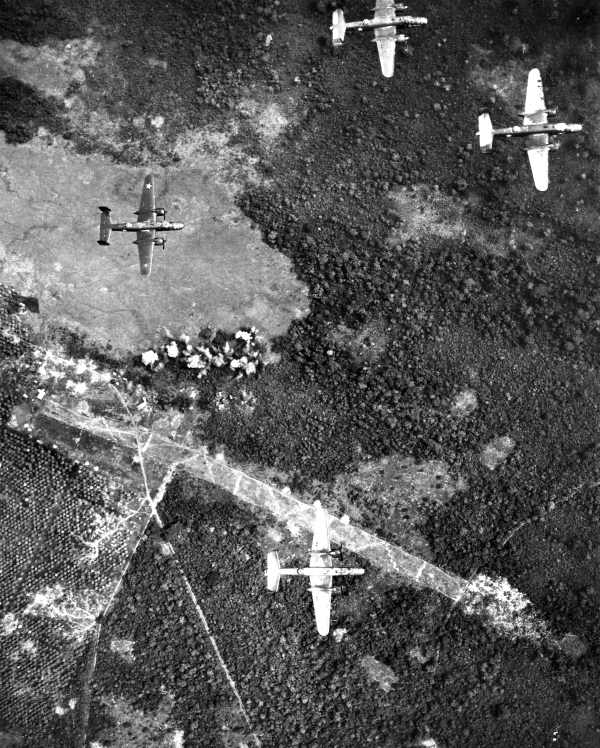 Aerial views of bombardment of Japanese airfield at Lae